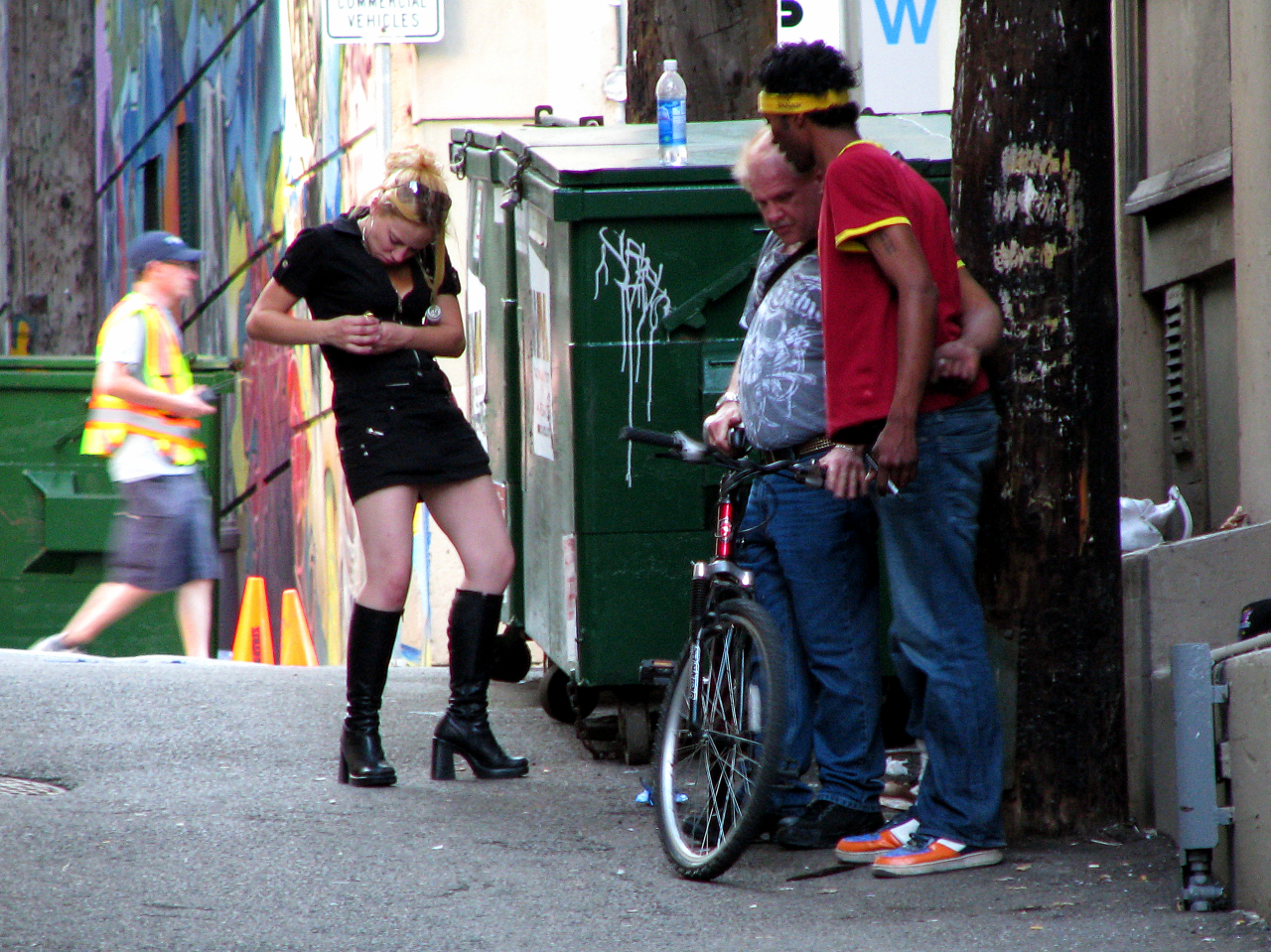 Three drug addicts seen smoking a huge amount of crack cocaine, in a downtown eastside alley, in Vancouver BC Canada.